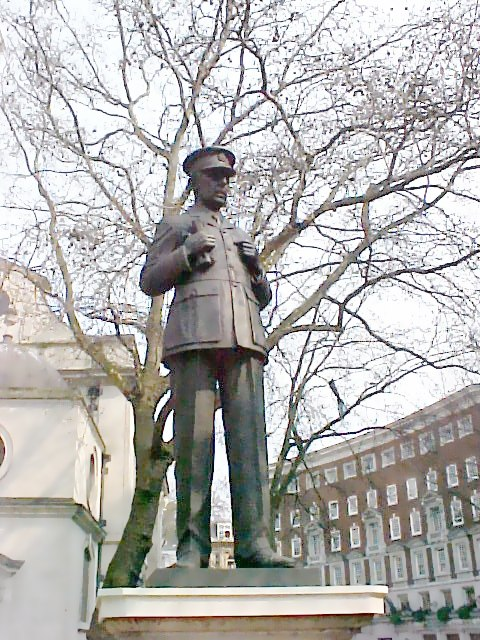 Lord Hugh Dowding statue. Owner and photografer Lachlan M. D. Cranswick has written to me by email: I hereby declare my Dowding images at in the public domain . Thank you very much indeed, Lachlan !